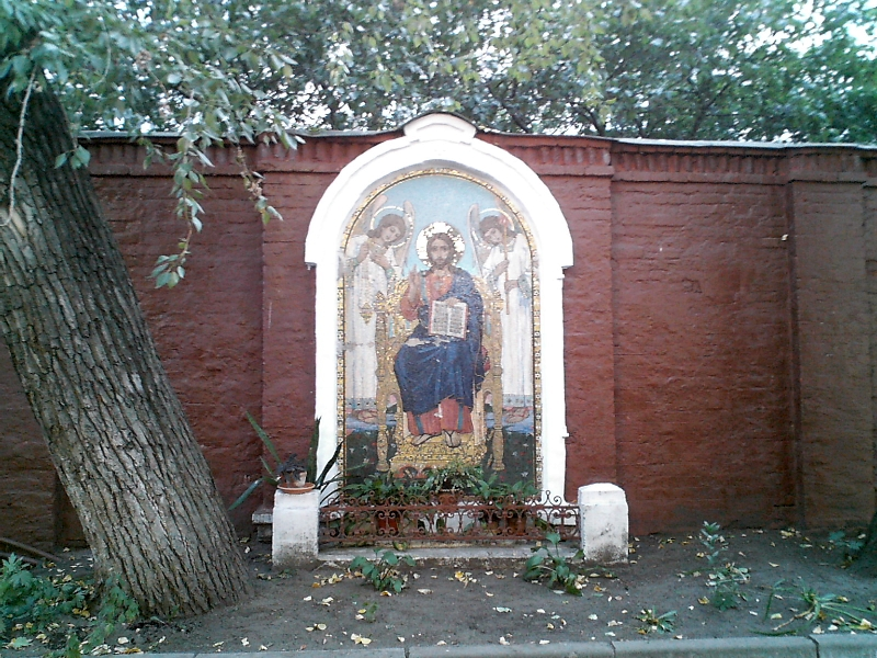 Russian painter Vasnetsov House (mosaic at court).